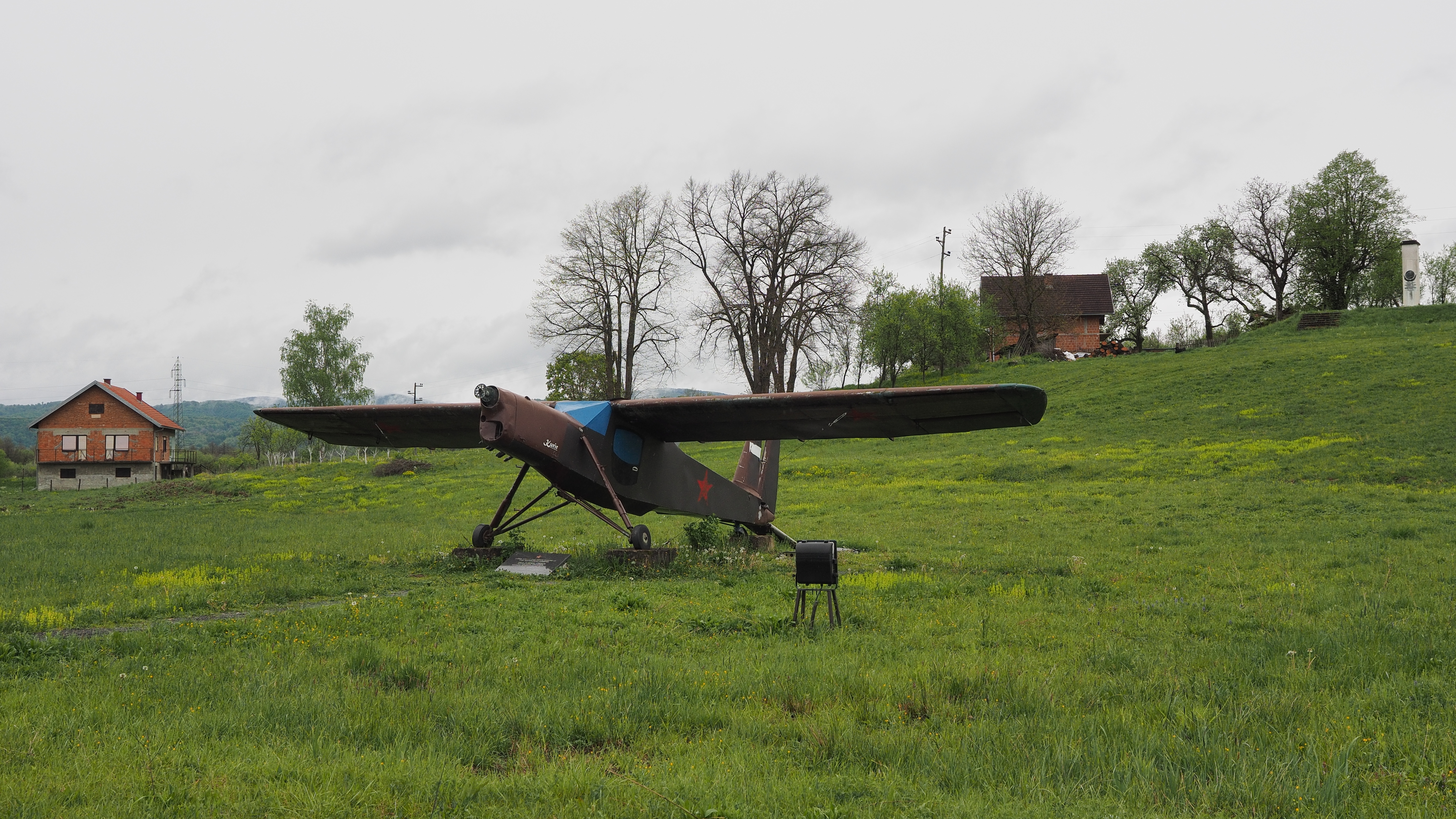 Međuvođe, Republika Srpska. Monument to first Partisan airport in 2 WW in Yugoslavia.